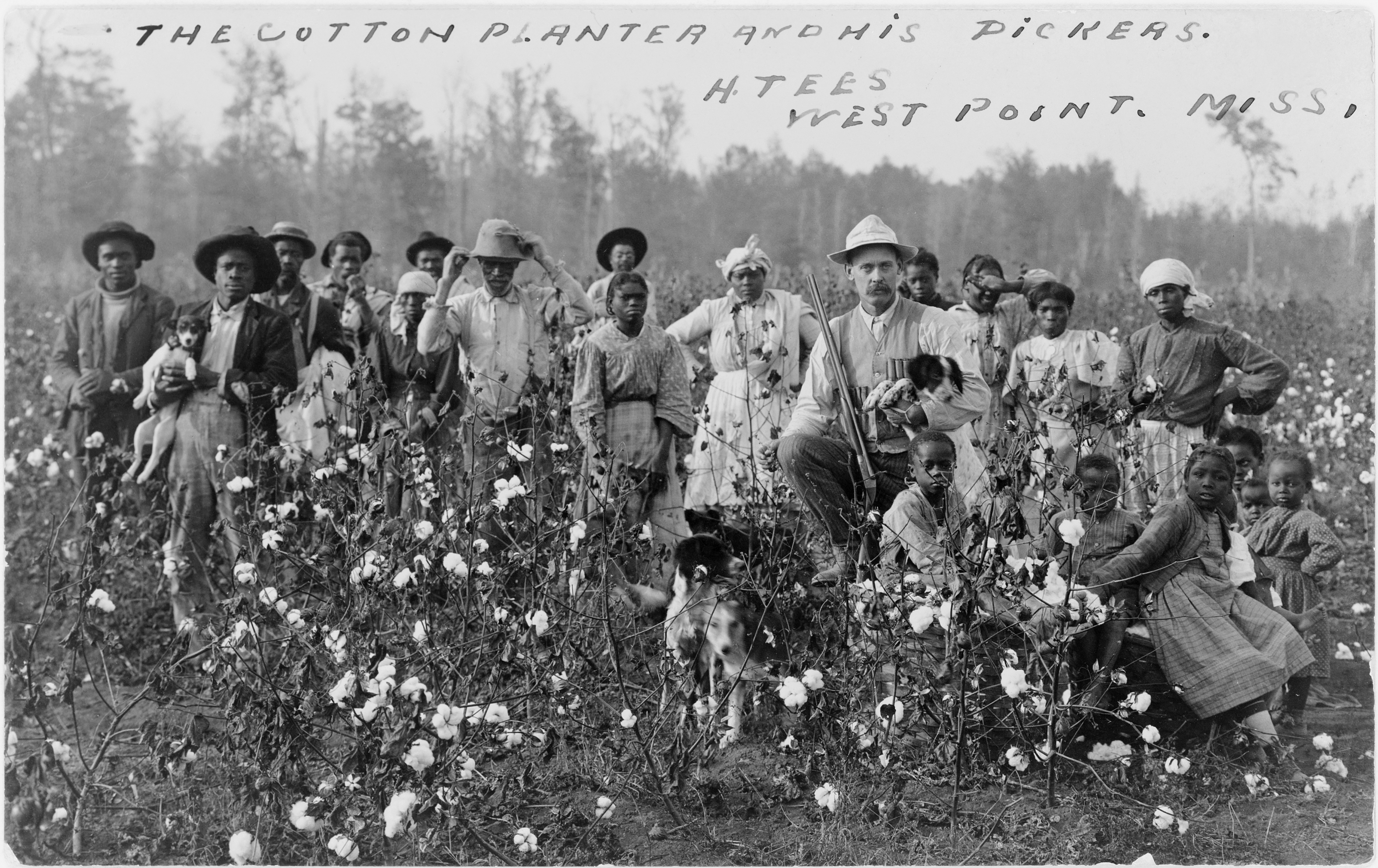 "The Cotton Planter and His Pickers", West Point, Mississippi, 1908. Postcard showing Euro American man holding shotgun and dog, with African American men, women, and children, in cotton field.